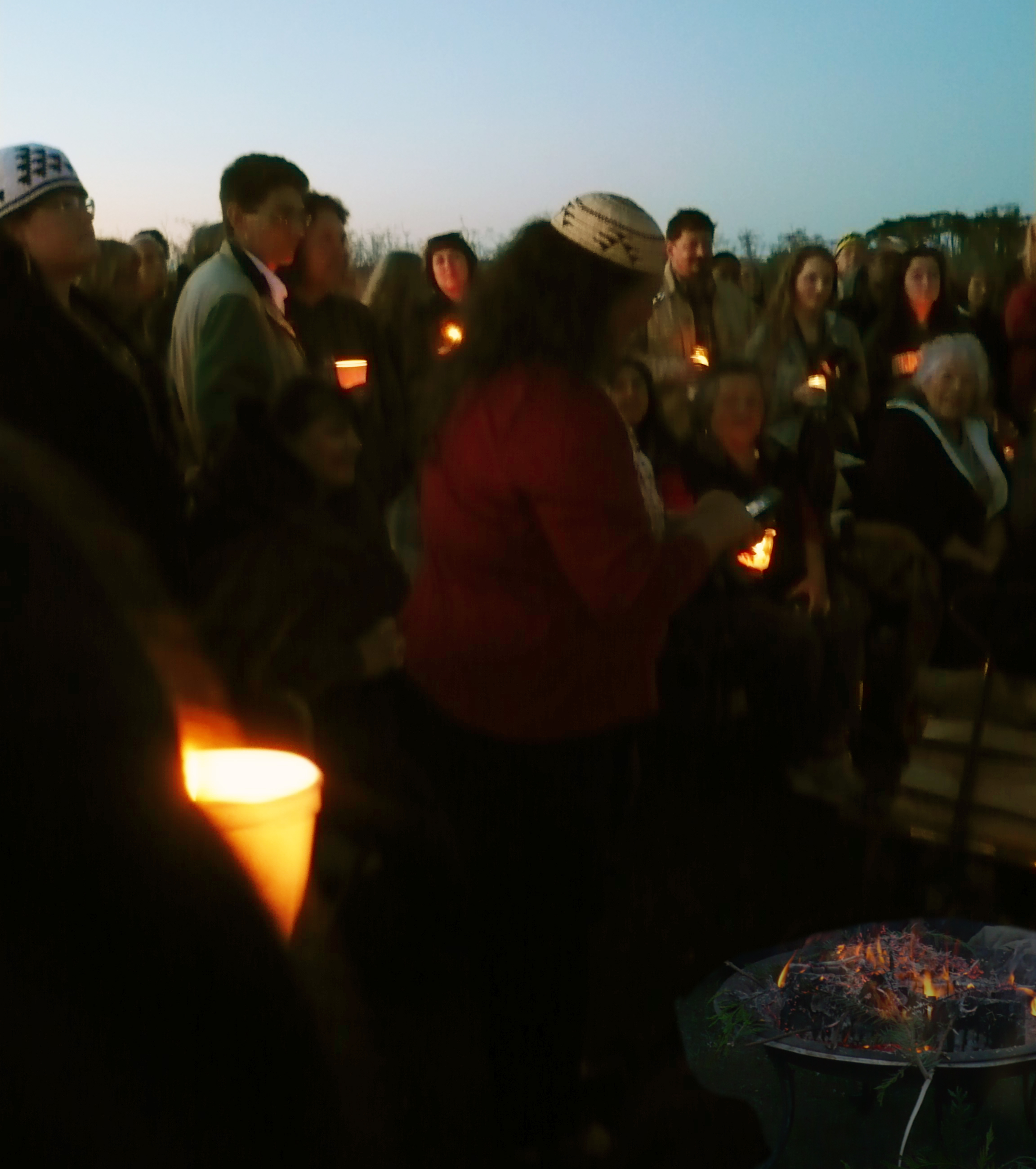 Wiyot elders, tribal members and people holding candles around a firepit at the last Wiyot Vigil in memory of the massacre-interrupted World Renewal Ceremony in 1860 on Tuluwat, also called "Indian Island" and "Gunther Island." The Wiyots were nearly annihiliated but eventually regained federal recognition in the late 1950s and a portion of the island in the 2000s; in part by purchase and in part by an unprecedented return of land to the tribe from the city of Eureka. Finally after years of environmental cleanup, the tribe announced that this would be the last annual vigil because the World Renewal Ceremony would resume at the end of March 2014 for the first time in over 150 years. The grove of trees to the right over the heads of participants is on Tuluwat itself, the vigils were held for over 20 years at Woodley Island Marina adjacent to the National Historic Register Monument marker. The only available light for this hand held image was the firepit.